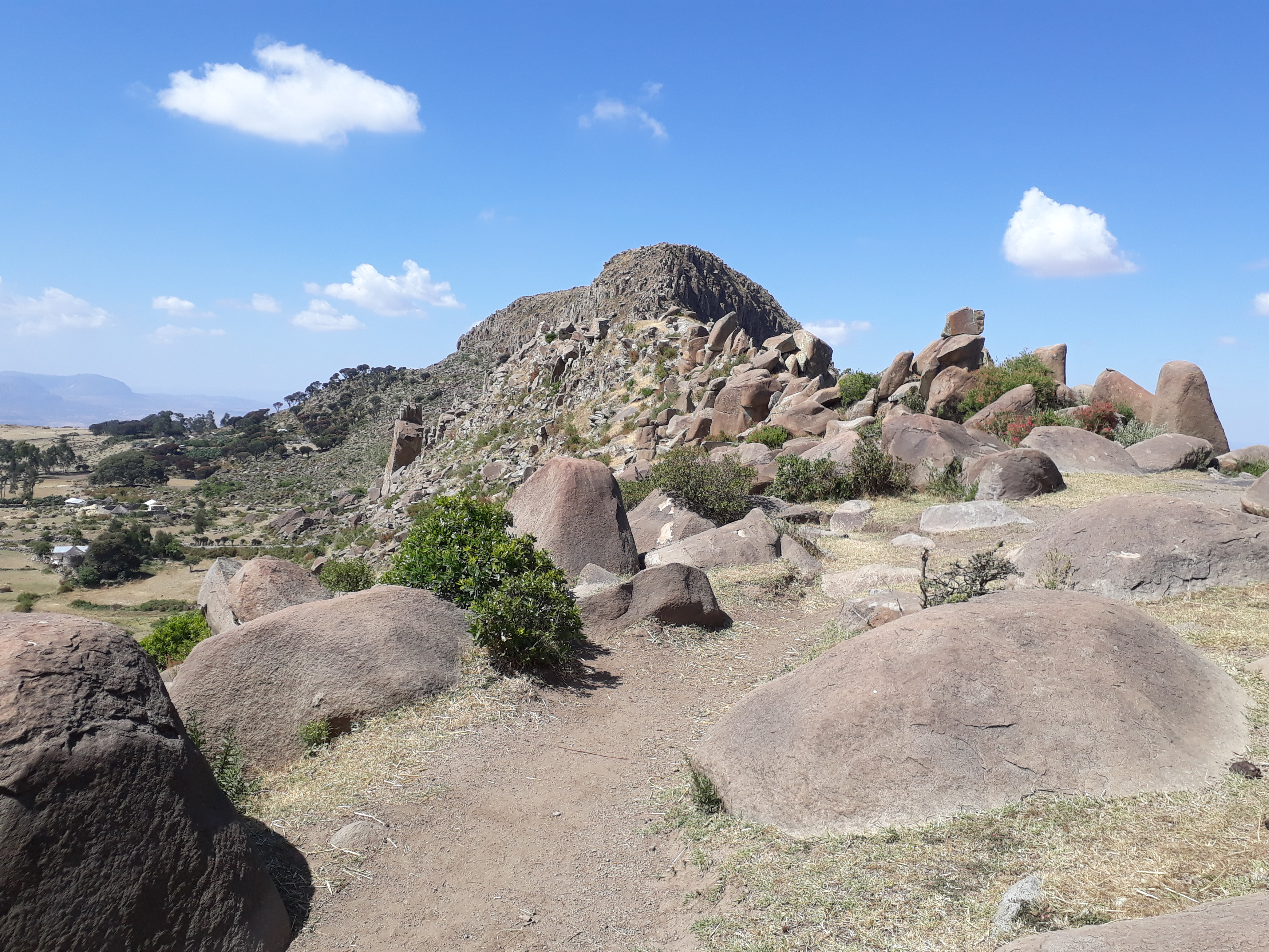 Dyke in Tsili